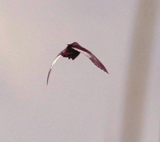 White-winged Flufftail at Lakenvlei, Middelpunt, Mpumalanga